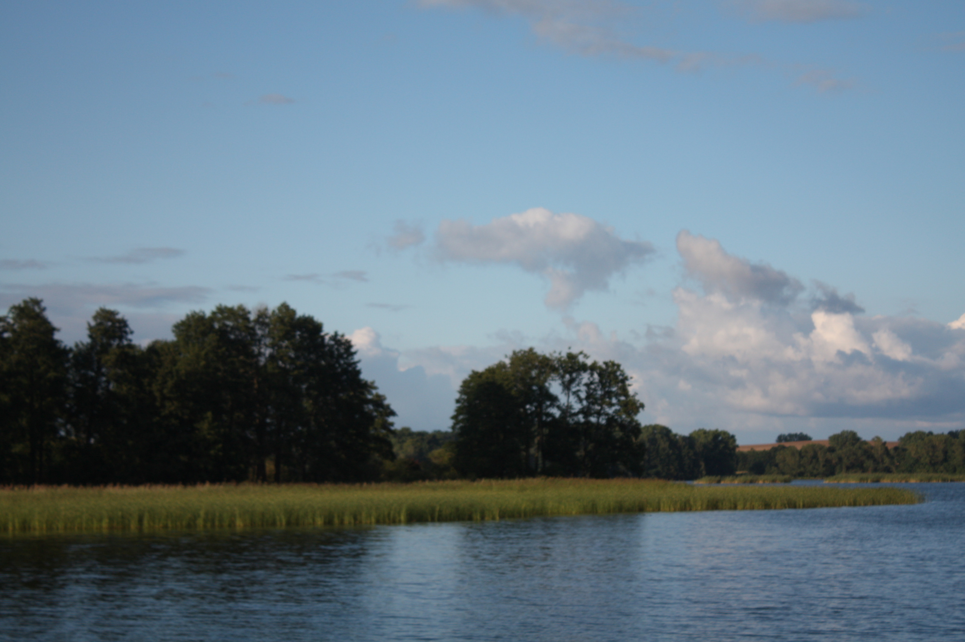 This photo of Warmian-Masurian Voivodeship was taken during Wikiexpedition 2012 set up by Wikimedia Polska Association. You can see all photographs in category Wikiekspedycja 2012. The making of this document was supported by Wikimedia Polska.